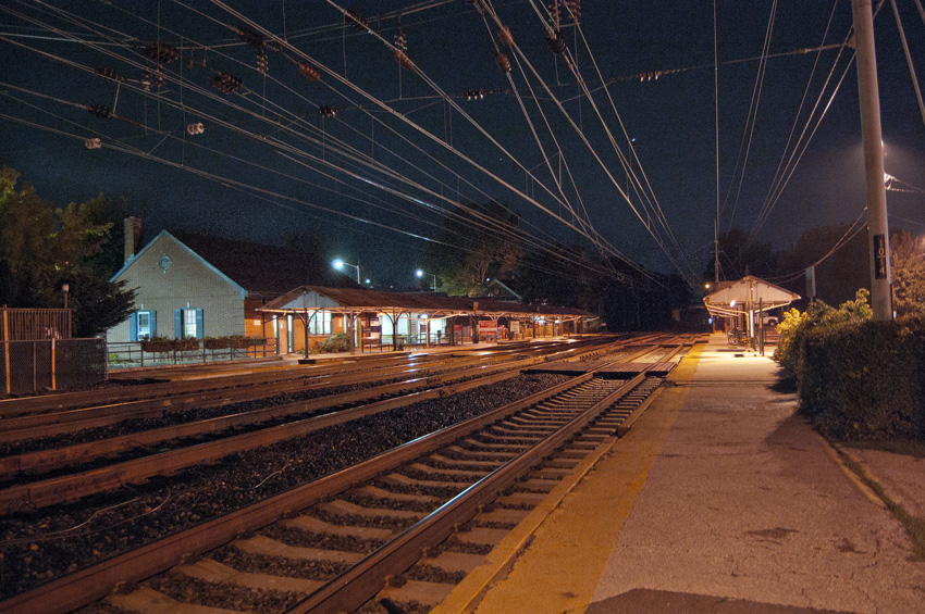 Bryn Mawr, PA, SEPTA Regional Rail Station (MP 10.14) looking west. (Taken a little after midnight.)